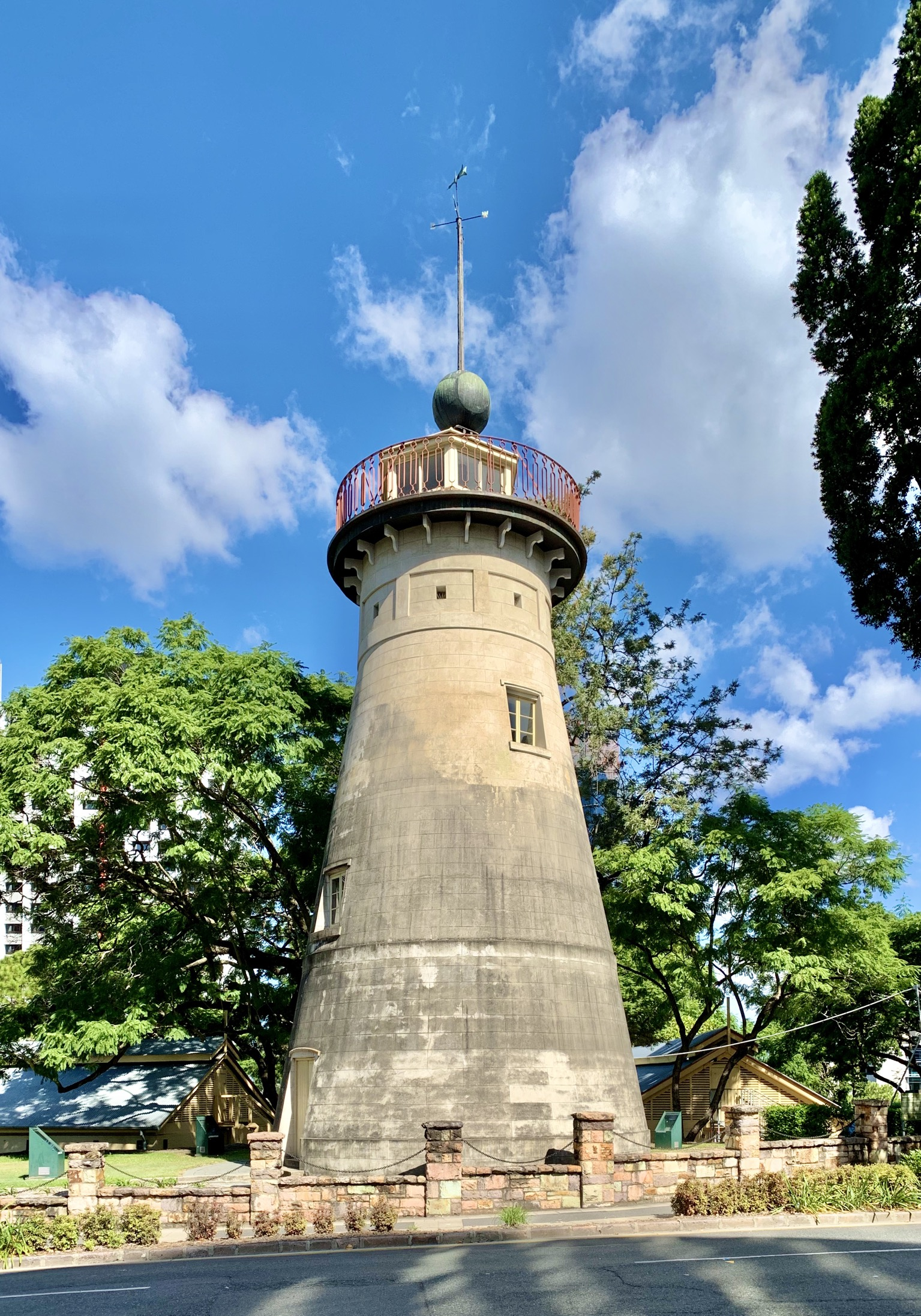 The Old Windmill, Brisbane, Queensland, April 2020